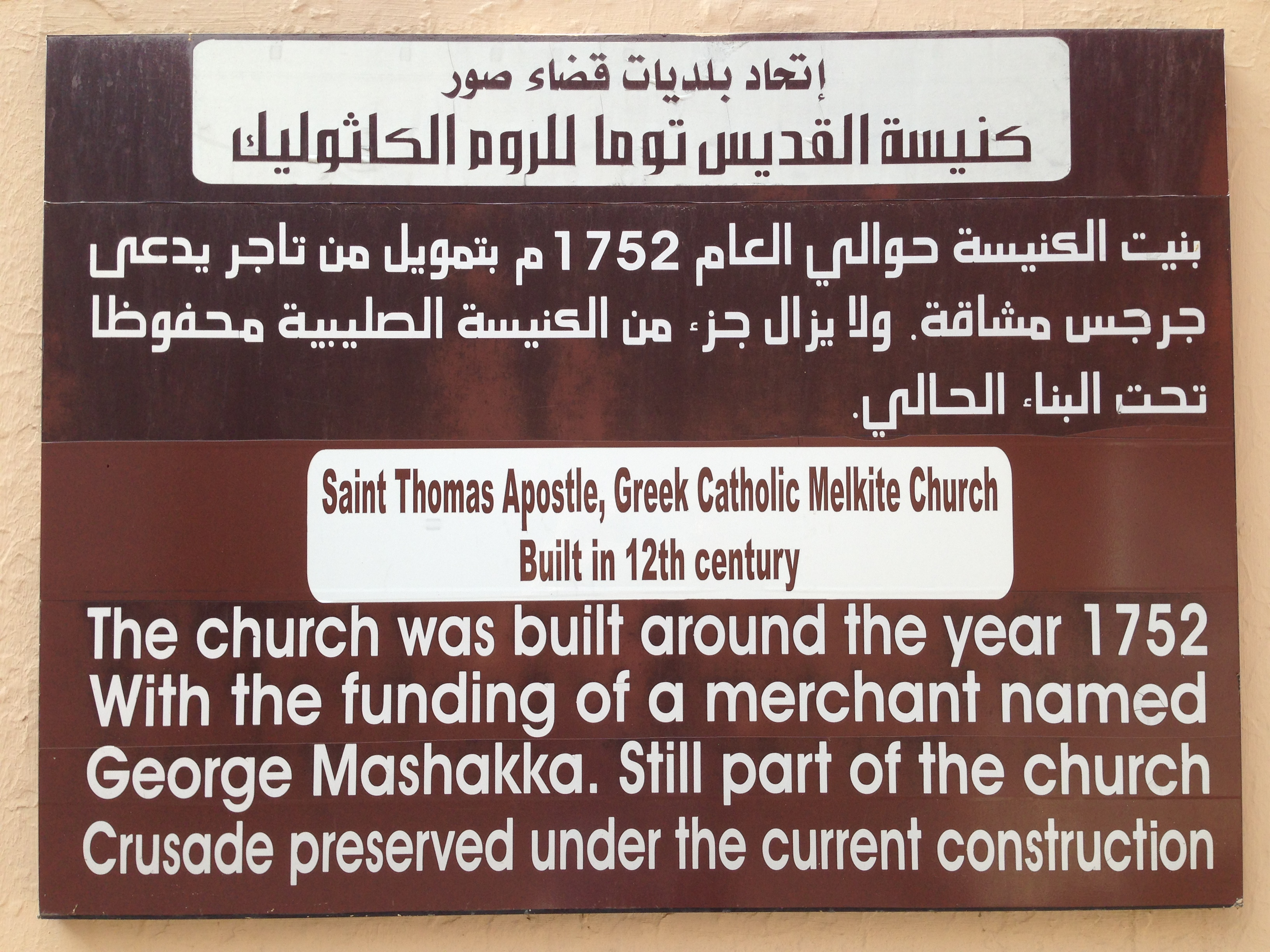 Arabic-English history information sign at the Melkite Greek Catholic St. Thomas Cathedral in Tyre, South Lebanon, reading "Saint Apostle, Greek Catholic Melkite Church Built in 12th century The church was built around the year 1752 With the funding of a merchant named George Mashakka. Still part of the church Crusade preserved under the current construction"